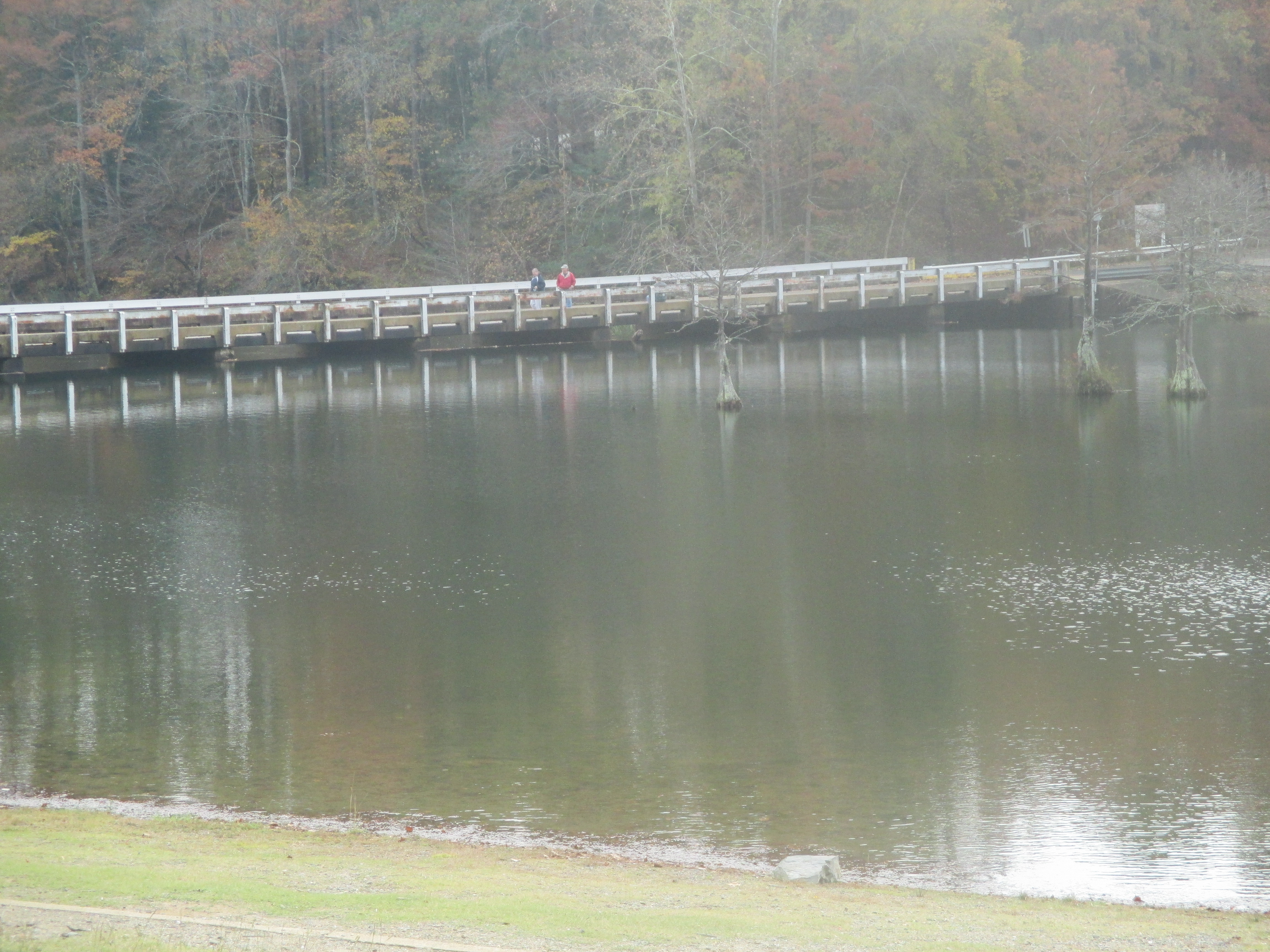 I took photo of bridge across Broken Bow Lake in Beavers Bend Resort Park.